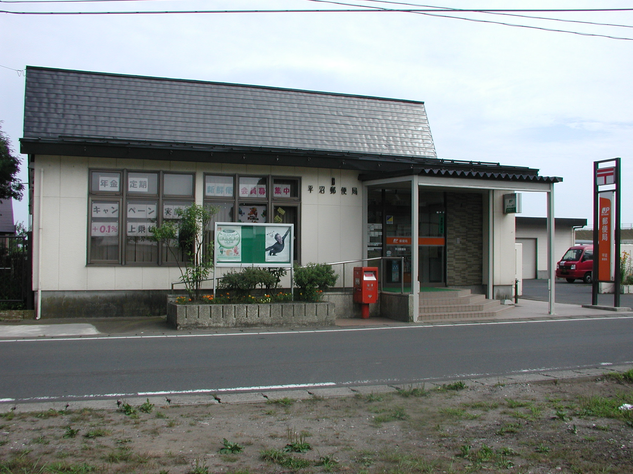 Japan Post Network Co.,Ltd. Hiranuma Post Office (Rokkasho, Aomori) Japan Post Service Co., Ltd. Noheji Branch Hiranuma Delivery Center